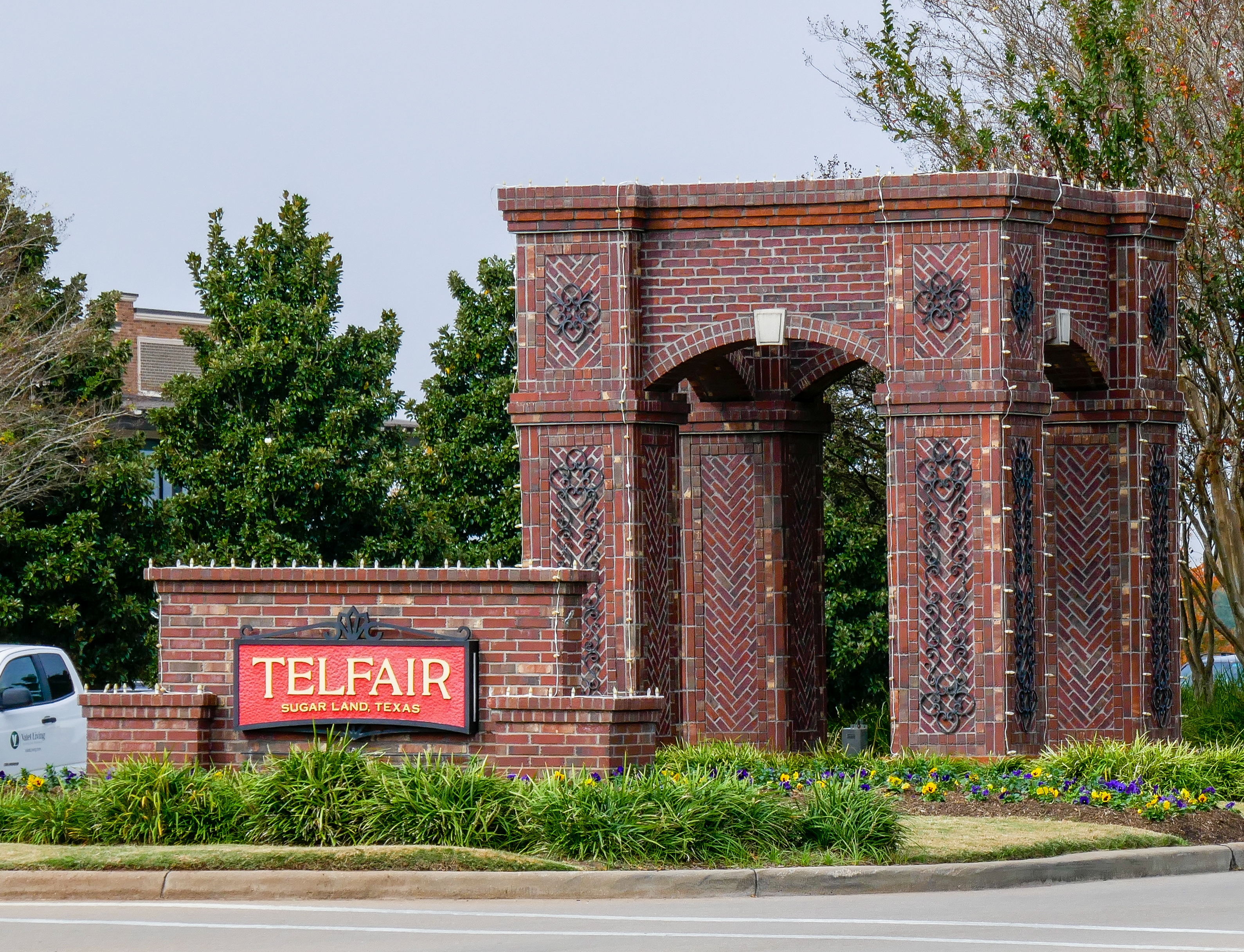 Telfair Entrance Sign